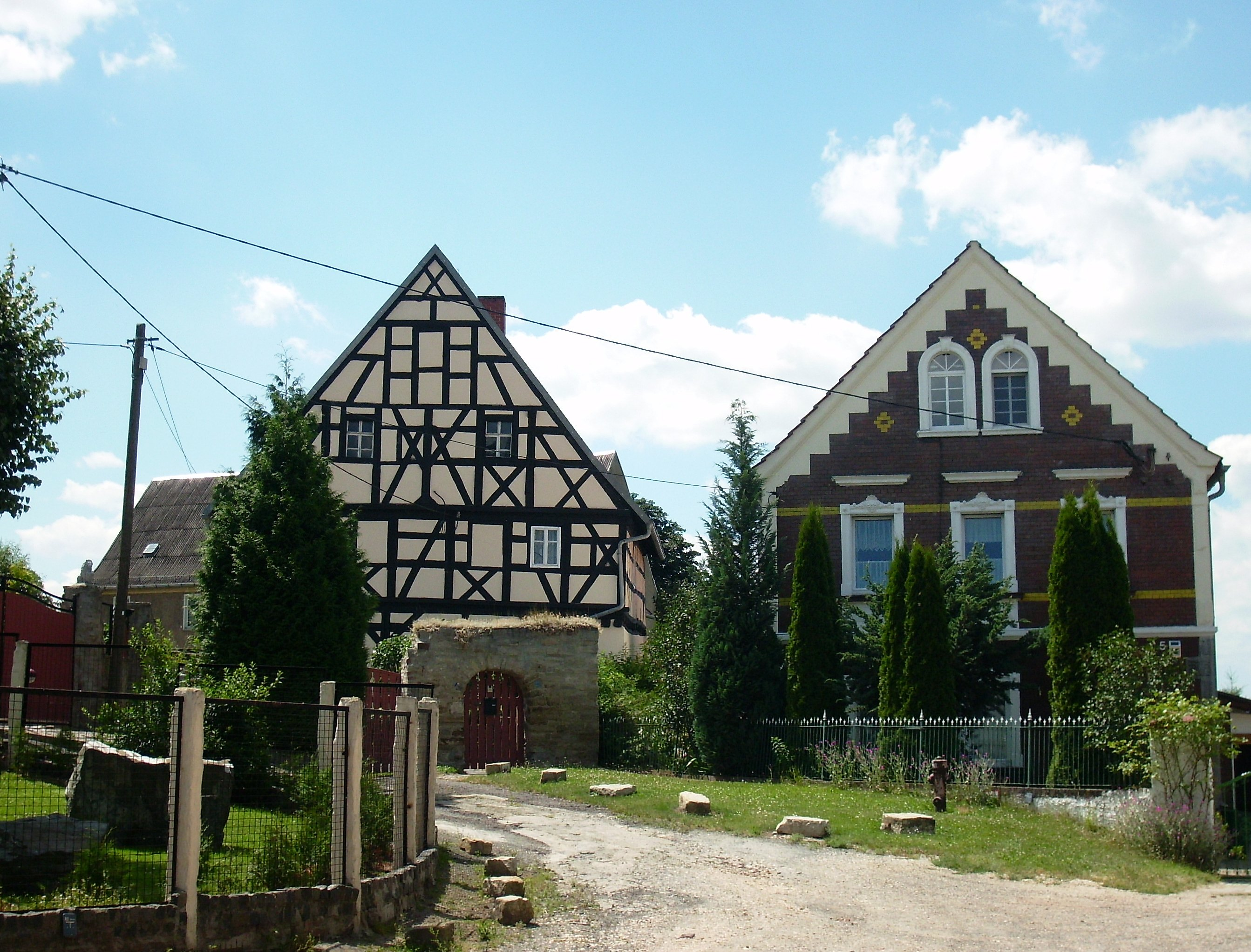 Houses in Sprossen (Elsteraue, district of Burgenlandkreis, Saxony-Anhalt)